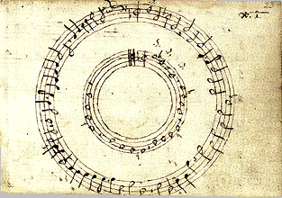 Sphera mundi a six-part puzzle canon on Miserere by John Bull (ca. 1562-3-1628), in an 18th-century manuscript.